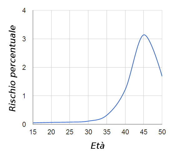 The risk of having a Down syndrome pregnancy in relation to a mothers age. Data from